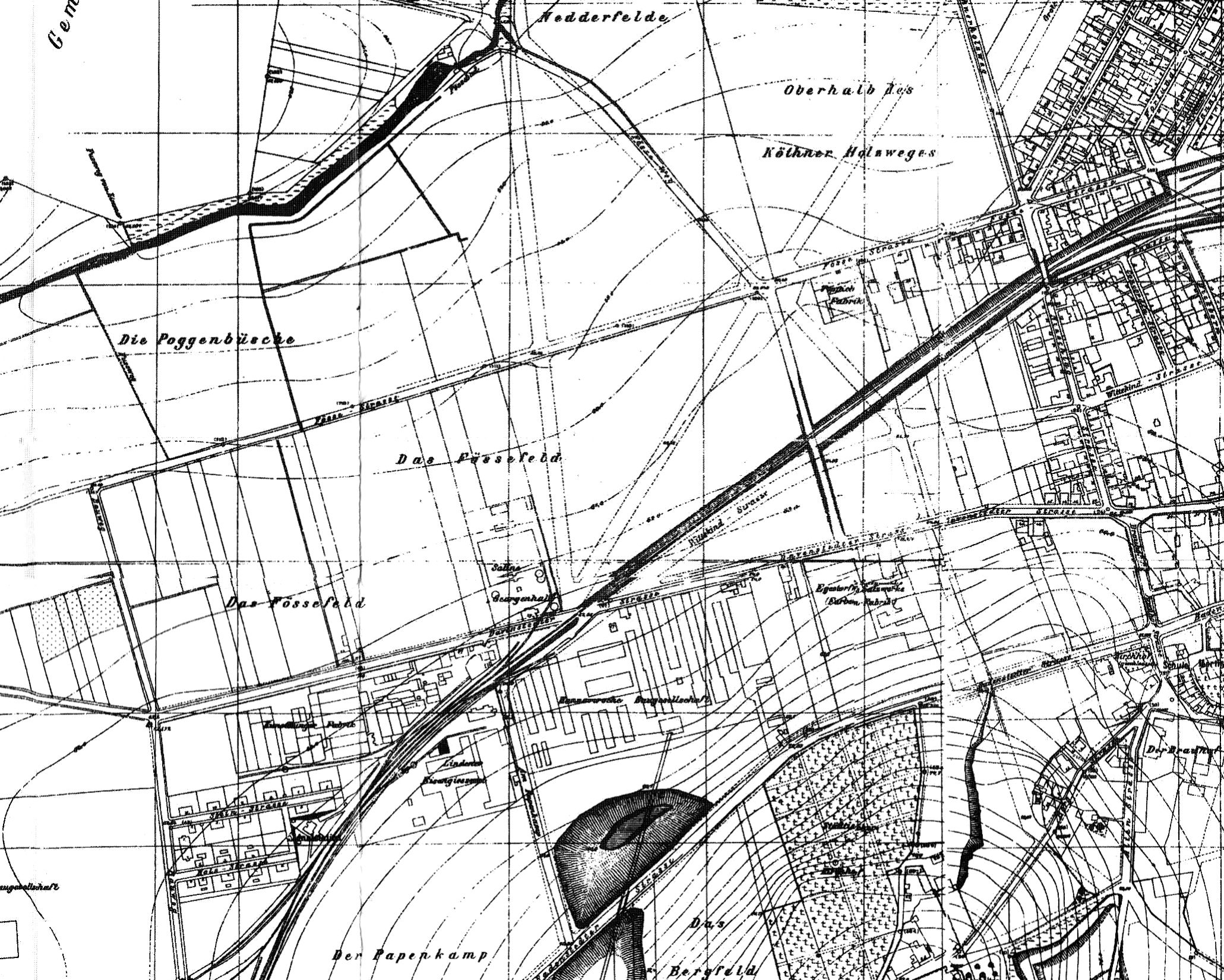 Detail from "Karte der Stadt und Feldmark Linden"